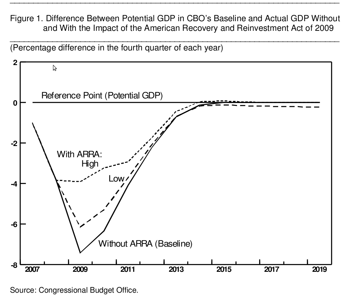 Notes: CBO’s January 2009 baseline projection of potential gross domestic product (GDP) is set as a reference point. The projection of actual GDP without the effects of the American Recovery and Reinvestment Act of 2009 (ARRA) is CBO’s January 2009 estimate, as presented in The Budget and Economic Outlook: Fiscal Years 2009-2019. The projections of actual GDP with the effects of ARRA incorporated (the high and low estimates) reflect a range of assumptions. Estimated Macroeconomic Impacts of the American Recovery and Reinvestment Act of 2009 March 2, 2009 Letter to the Honorable Charles E. Grassley